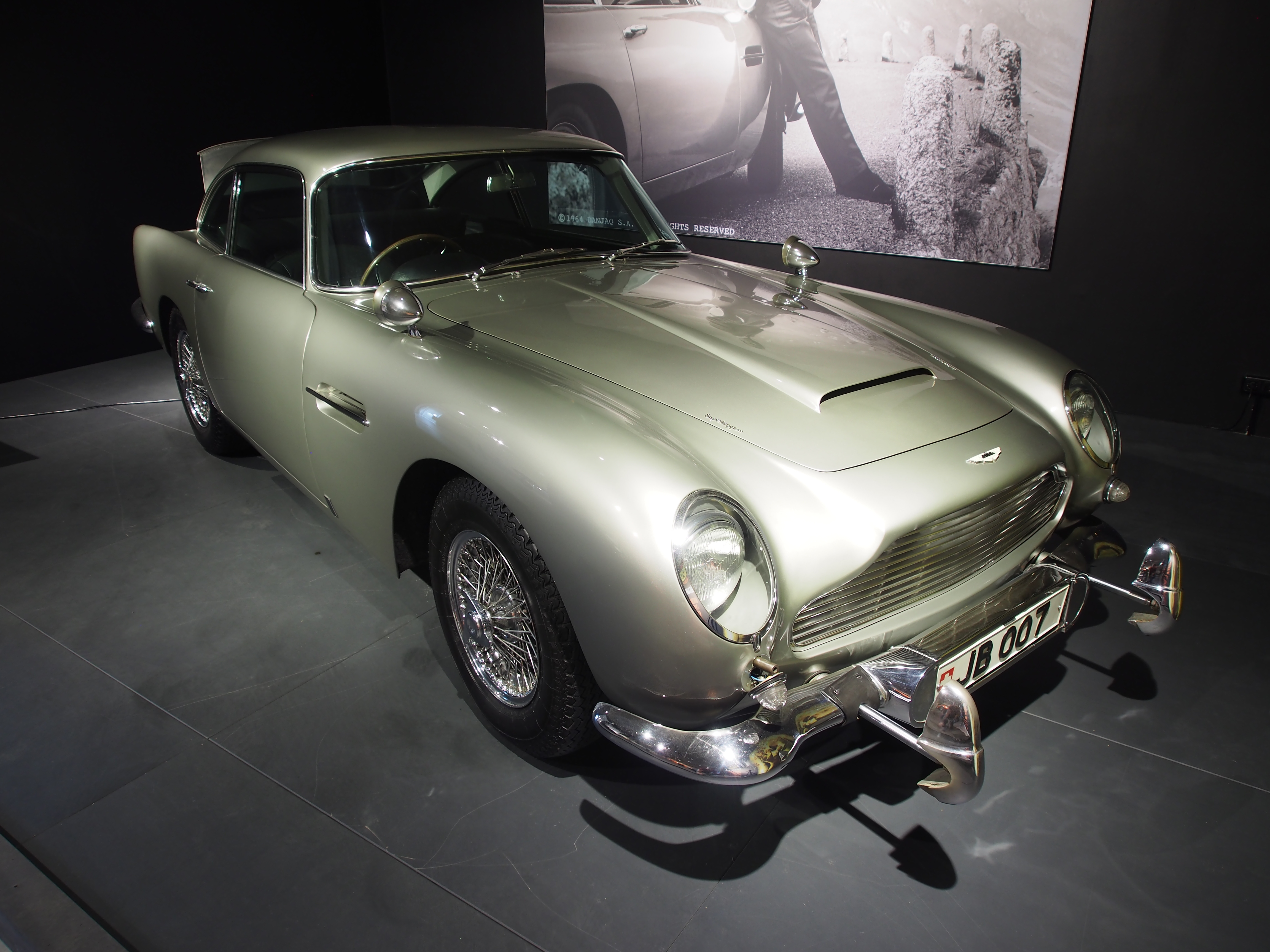 1964 Aston Martin DB5 James Bond photographed at the Louwman museum.